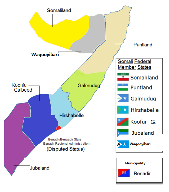 Regioni federali Somali